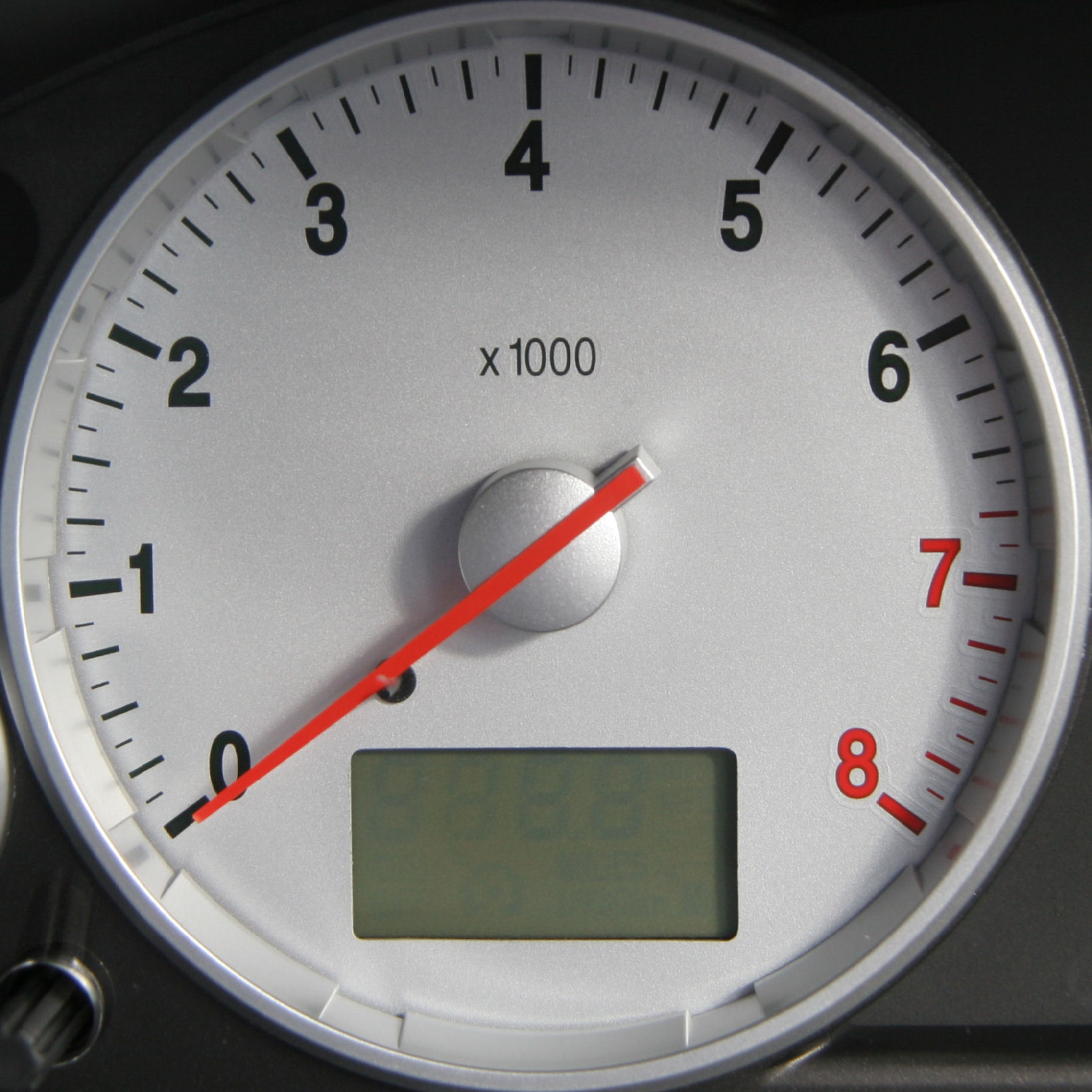 Tachometer in Ford Mondeo ST220 (MK3).